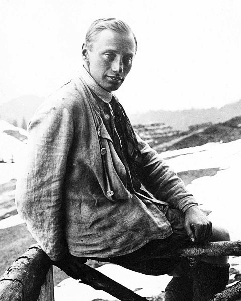 Paul Preuss